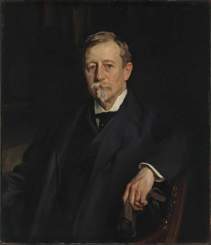 Aaron Augustus Healy John Singer Sargent -- American painter 1907 Brooklyn Museum of Art, NY Oil on canvas 86.5 x 73 cm (34 1/16 x 28 3/4 in) Signed upper right: "John S. Sargent" Accession # 21.50; Bequest of A. Augustus Healy Jpg: brooklynmuseum